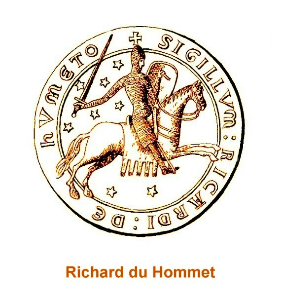 Sceau de Richard du Hommet, patron et donateur de l'Abbaye d'Aunay